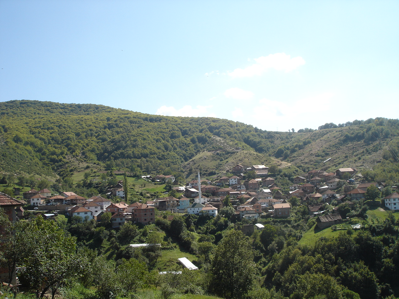 village of Cvetovo, near Skopje, Macedonia